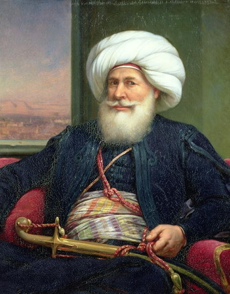 Muhammad Ali Pasha, Wali of Egypt and Founder of the Modern Dynasty of Kings of Egypt. A Lighter Colored Version of Auguste Couder's Original Portrait.